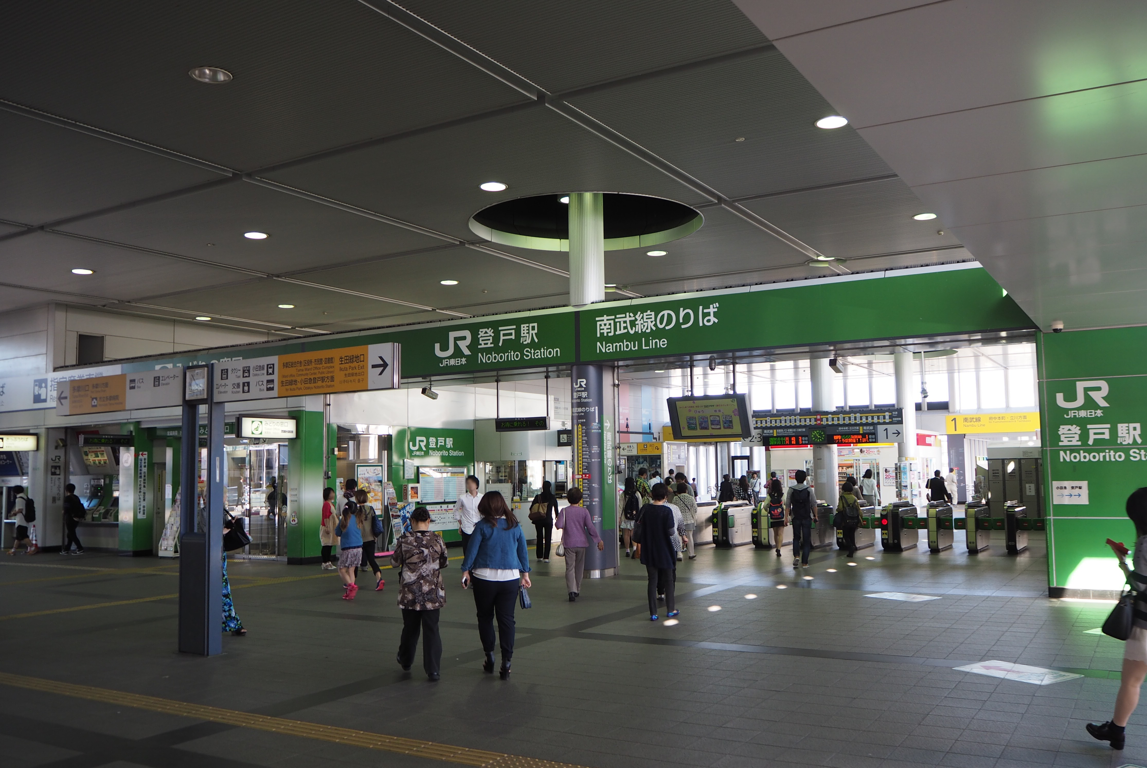 Ticket gate of Noborito Station (JR East)